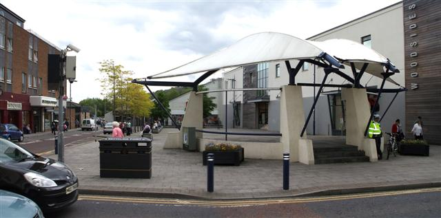 Bandstand, Larne It is located at the main street